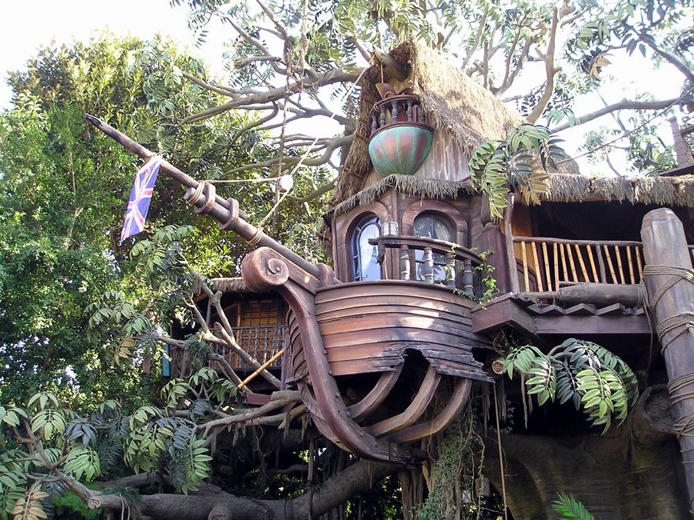 Disneyland's Tarzan's treehouse By Ellen Levy Finch user:Elf Feb 2006